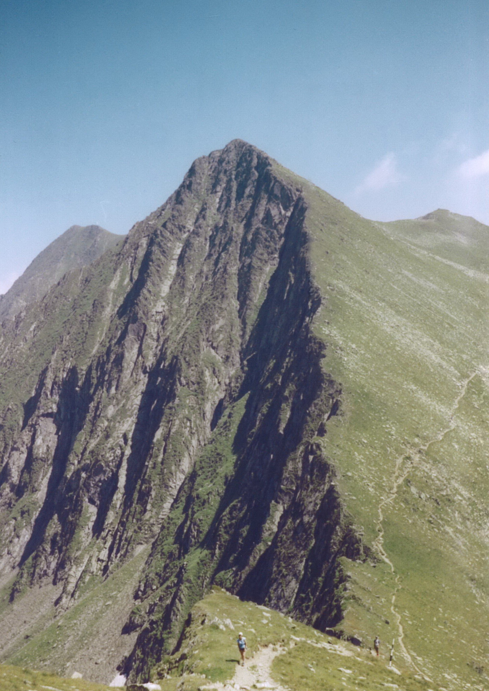 Corabia Peak